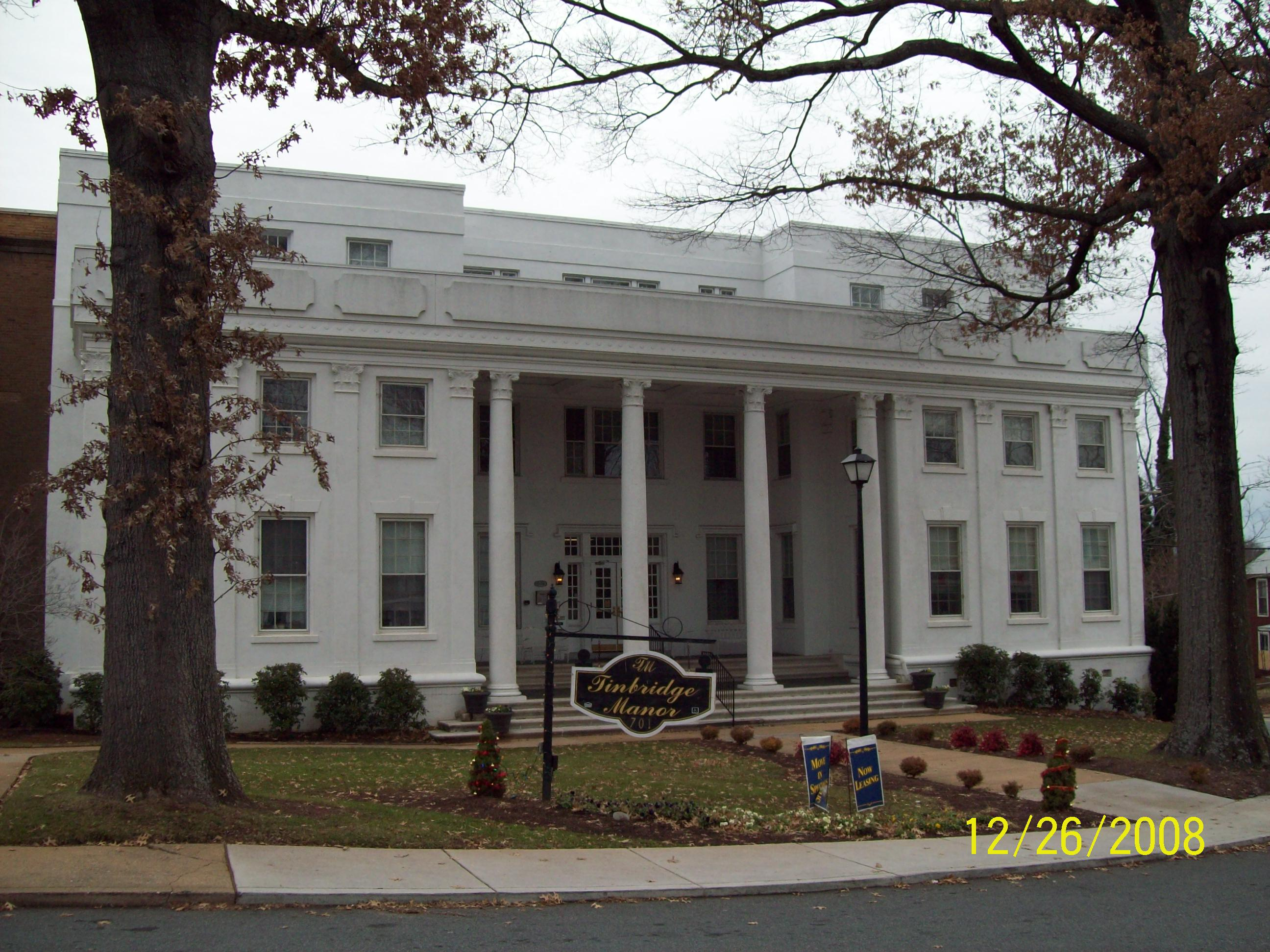 Lynchburg Hospital, Lynchburg, Va., Dec 08